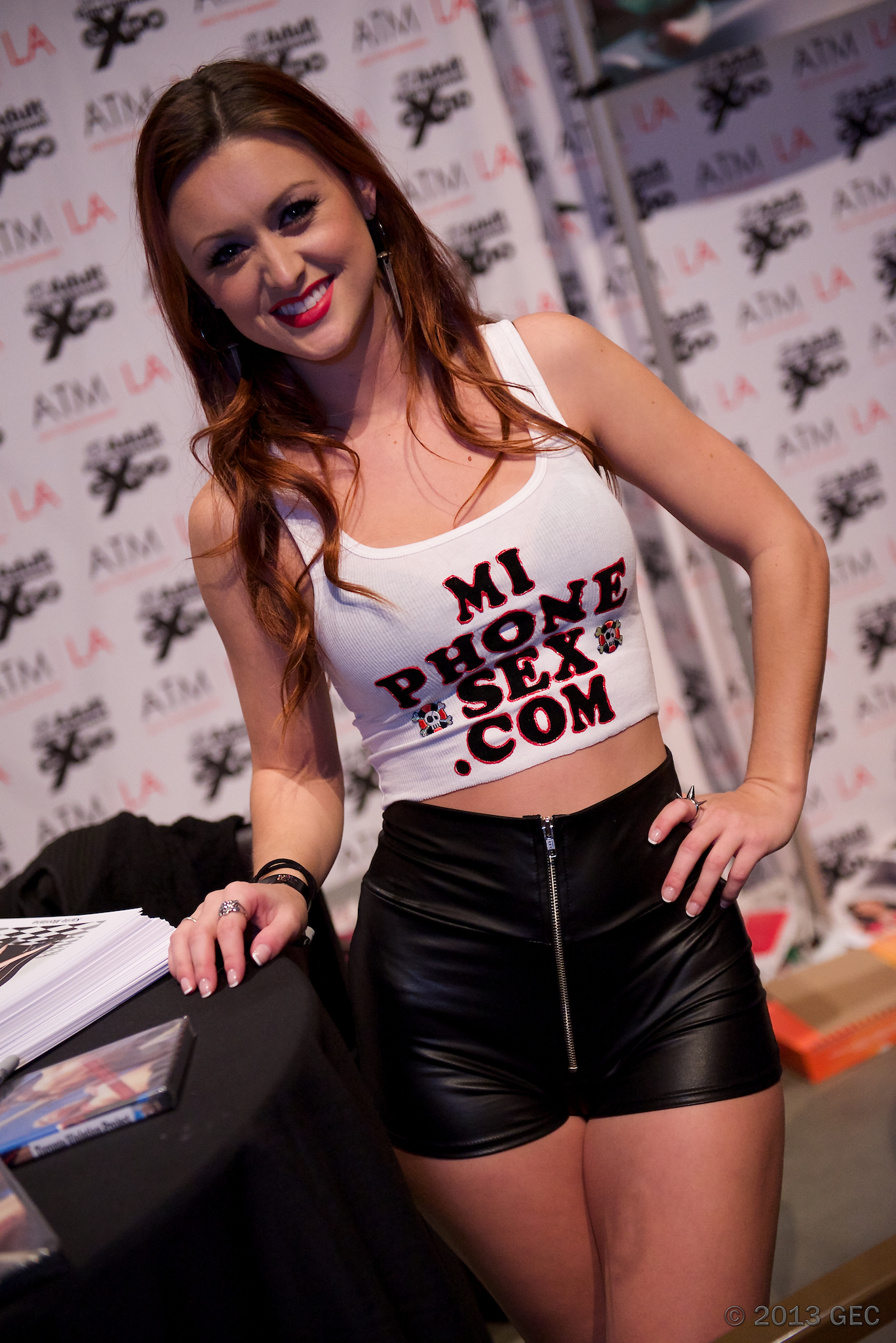 @KarlieMontana. 2013 AVN Adult Entertainment Expo AEE at Hard Rock Hotel - Las Vegas. 2013 © GEC.